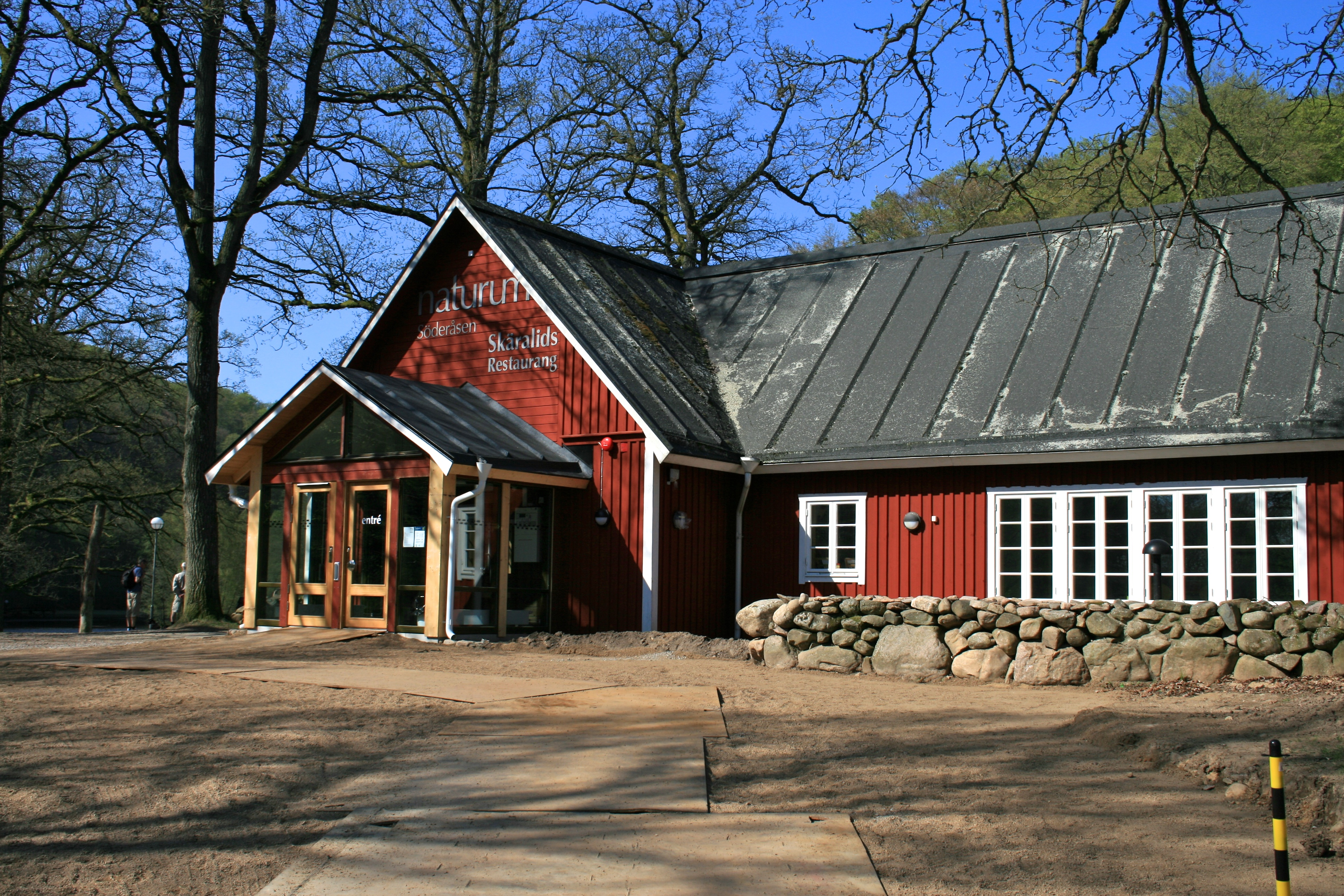 Naturum, close to the main entrance of Söderåsen national park in Skäralid